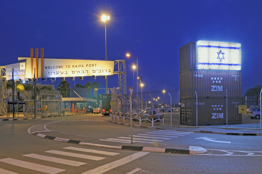 Israeli flag made of reused plastic bottles presented in Haifa port, Israel. 2011